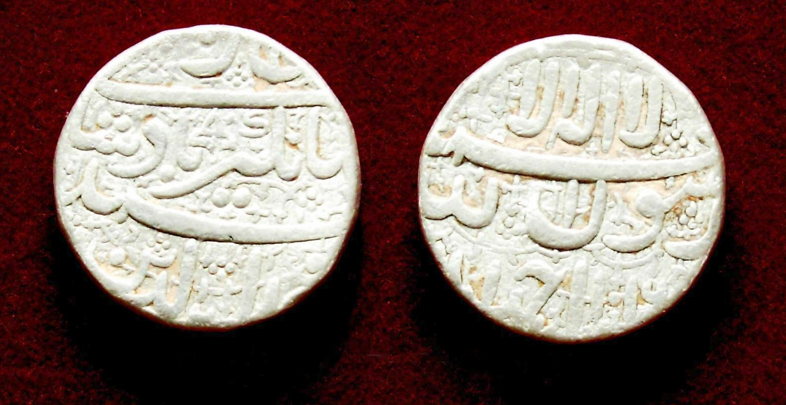 Silver heavy rupee of Jahangir, Ahmedabad (Ahmadabad) mint.